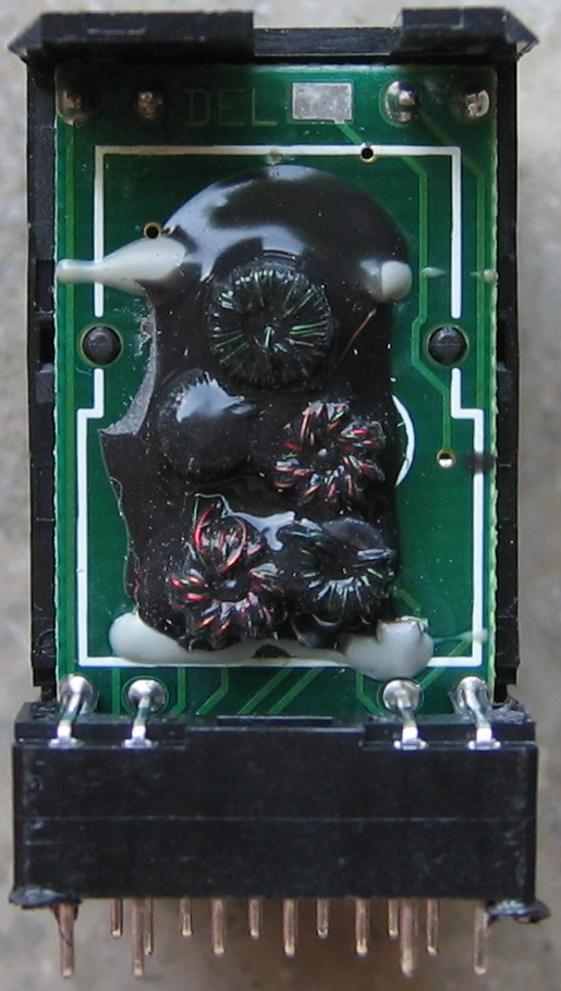 Dual USB and Ethernet Jack with pulse transformer